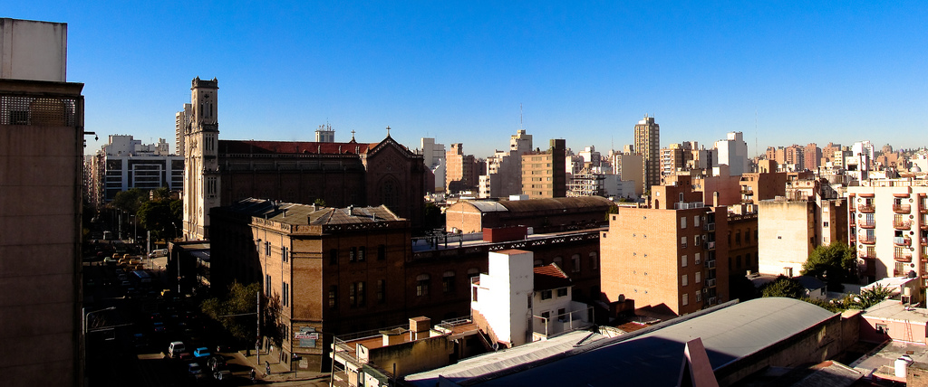 Cityscape from Alberdi neighborhood. Cordoba, Argentina.